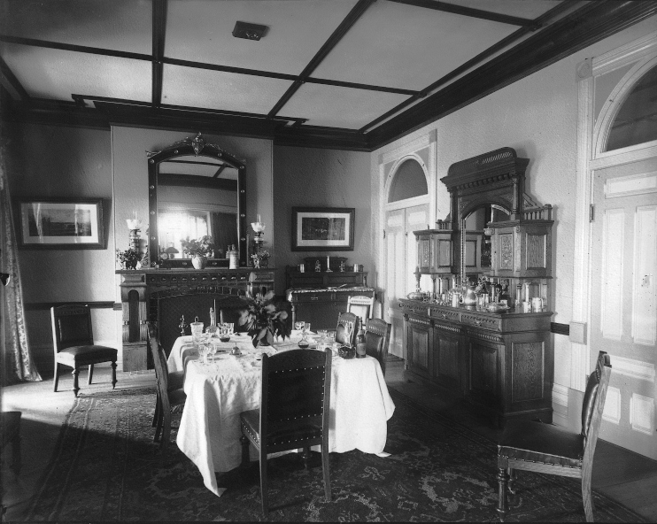 Photograph, Mrs. Louis J. Forget's dining room, Montreal, QC, 1888, Wm. Notman & Son, Silver salts on glass - Gelatin dry plate process, 20 x 25 cm